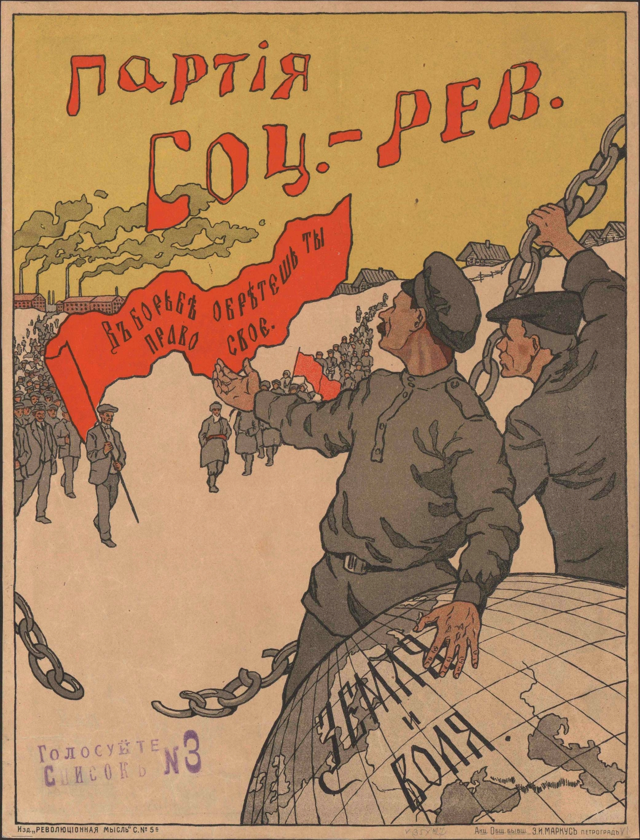 1917 Socialist Revolutionaries election poster. The Socialist Revolutionaries were an agrarian socialist political party that attempted to create a democratic government in Russia in 1917 but were overthrown shortly afterwards by Russia's Bolshevik Communists.